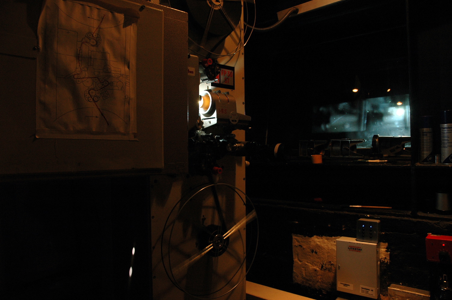 Kinoton FP30ST movie projector in operation.